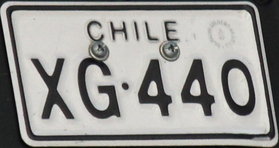 Chilean registration plate: motobike